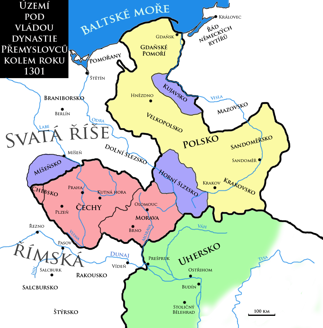 Territory under control of Přemyslid dynasty around year 1301. In Czech language.